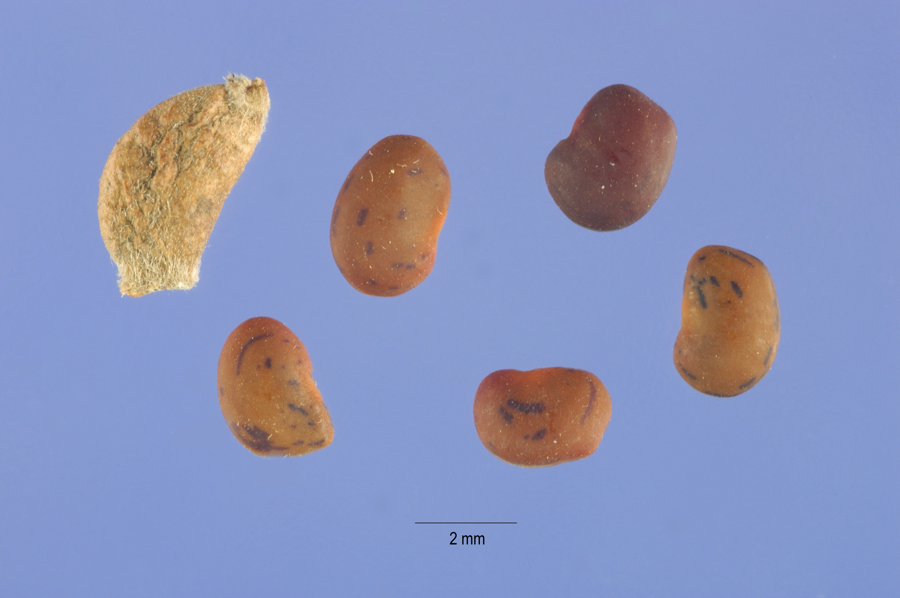 Camelthorn. Family Fabaceae. Seeds. Collected in Egypt, Cairo.